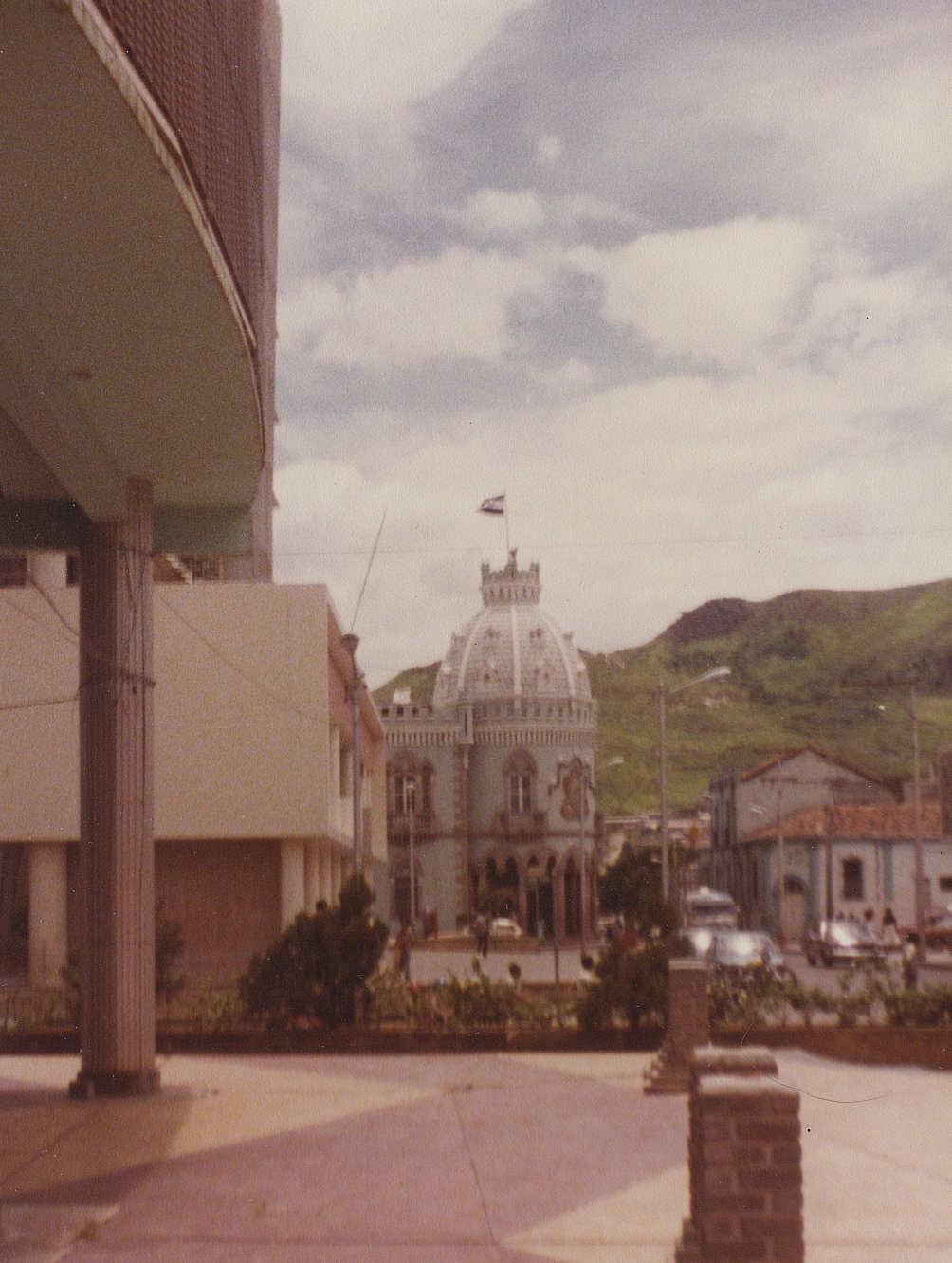 View towards old Presidential palace, Tegucigalpa, Honduras, 1980